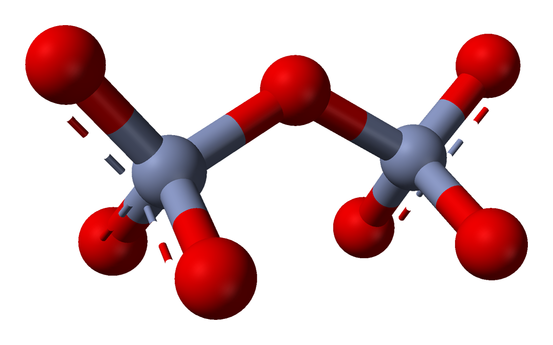 Ball-and-stick model of the dichromate ion, Cr2O72−